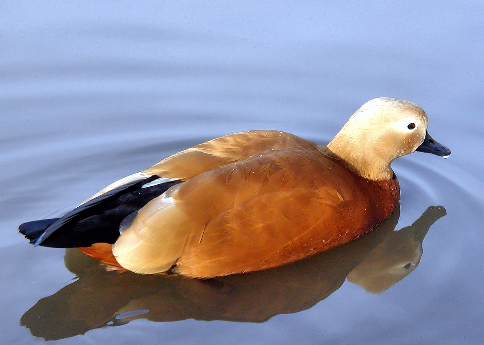 Ruddy Shelduck Tadorna ferruginea at the Wildfowl and Wetlands Trust, Slimbridge, Gloucestershire, England.